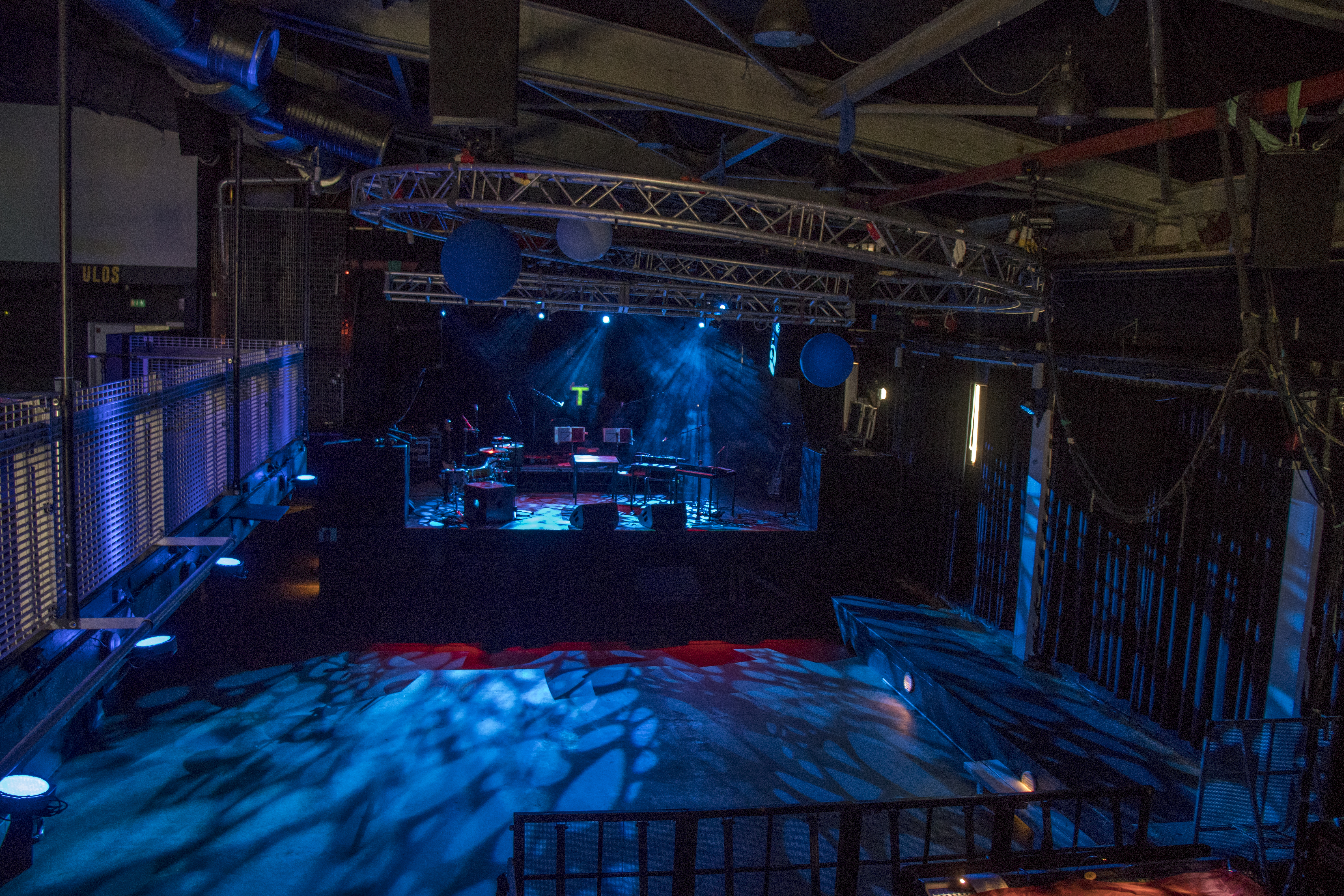 Nosturi's concert hall, summer 2019